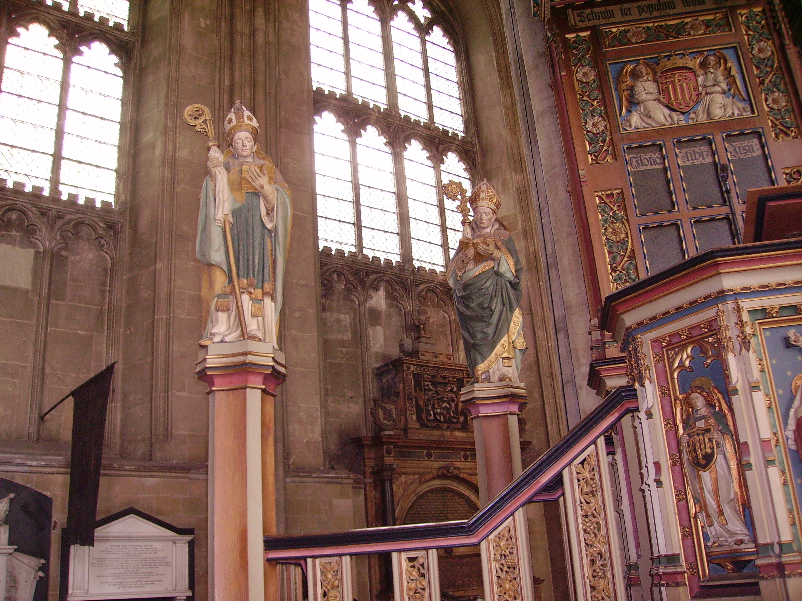 pulpit of Canterbury Cathedral in Canterbury, United Kingdom